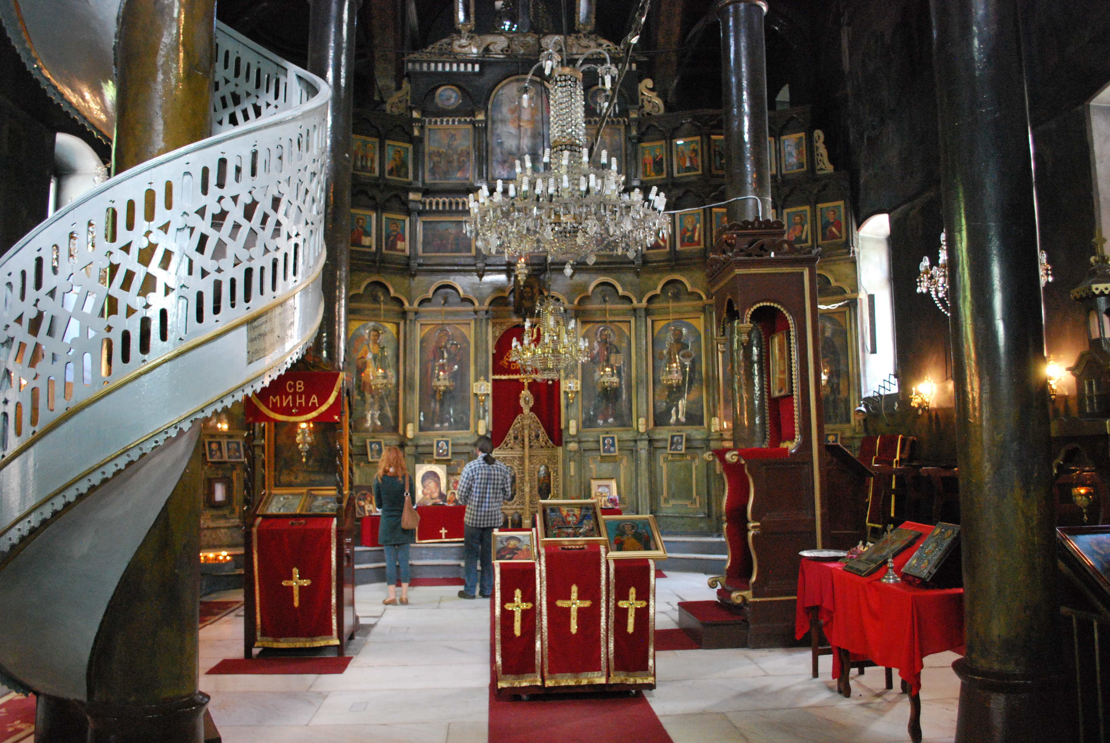 St. Demetrious Church in Skopje, Macedonia